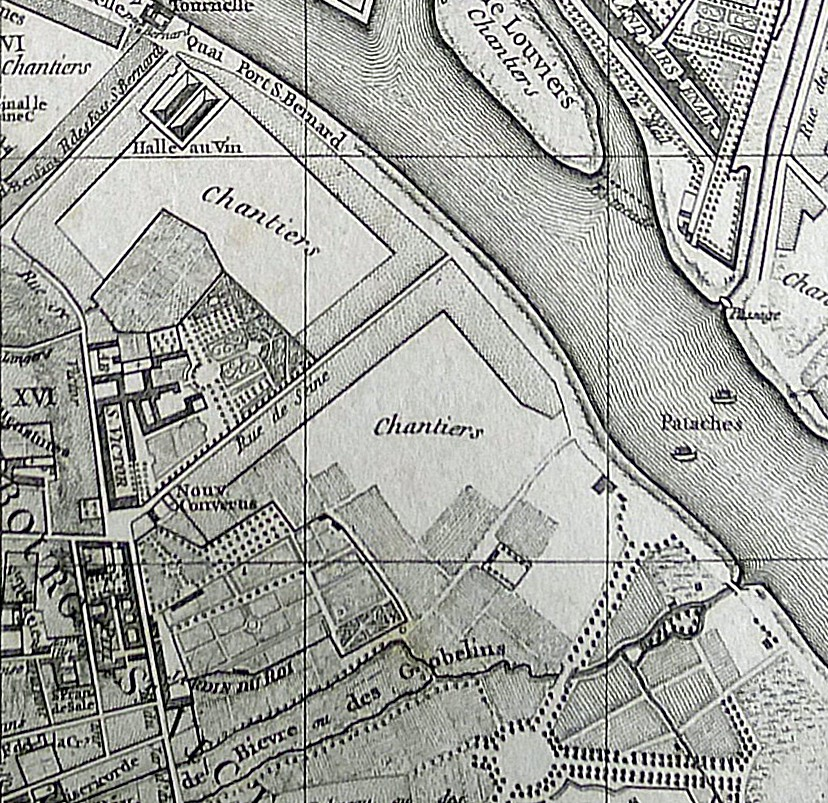 Vaugondy's map of Paris (Saint-Victor + Jardin des plantes) - 1760